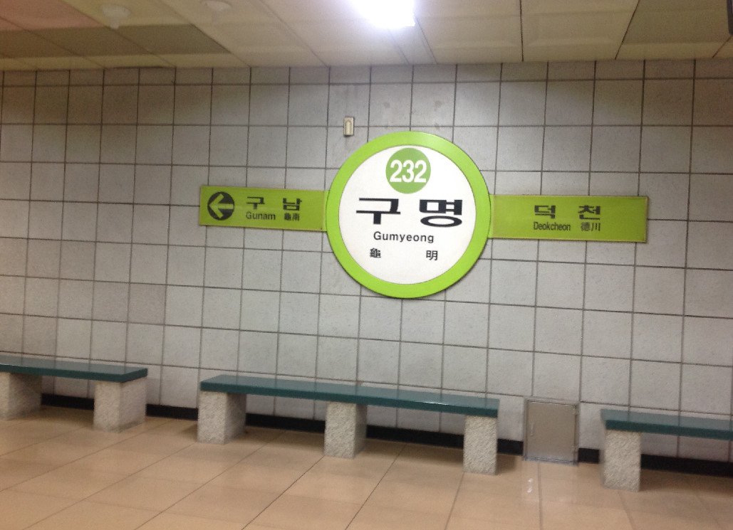 Busan Subway Line 2 Gumyong Station.